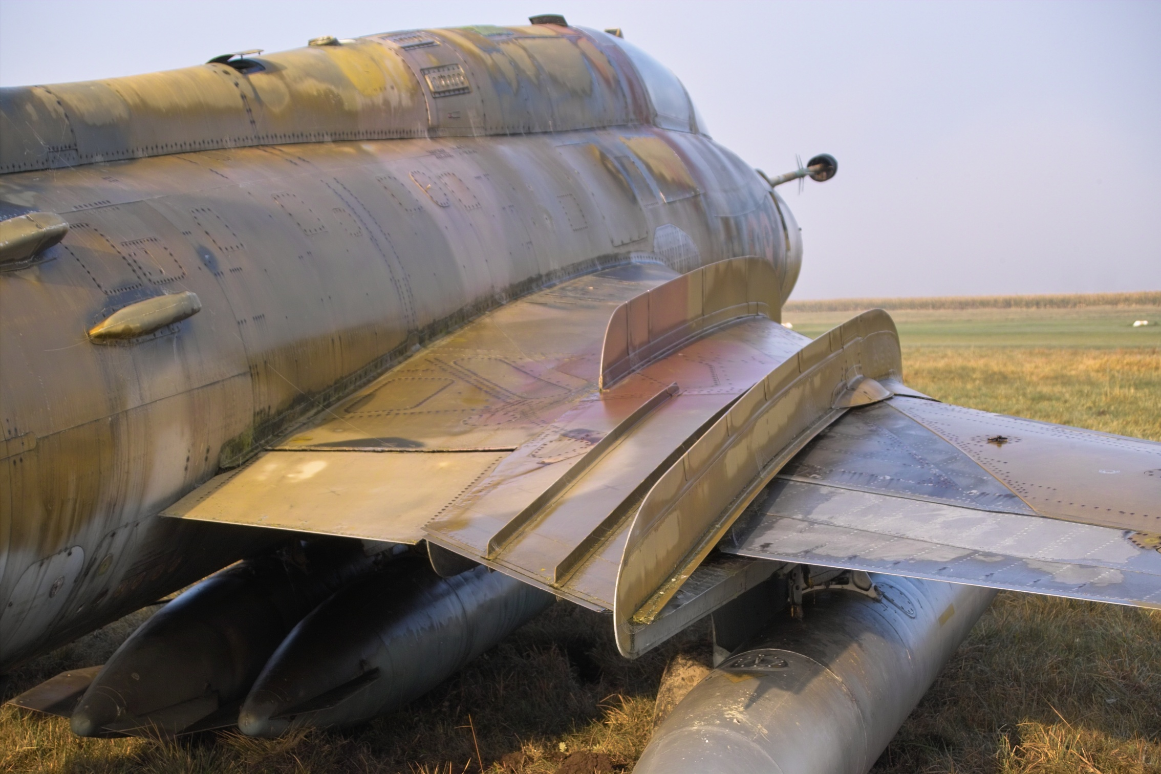 Wing fences of a Sukhoi Su-22M-4 of the National People's Army, the aircraft is displayed at airfield Dermsdorf/Kölleda, Germany.